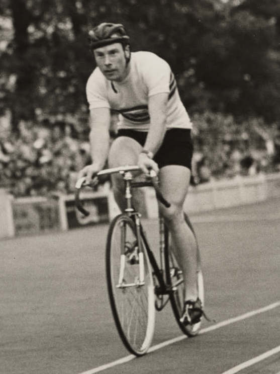 Reg Harris (1920-1992) was a cyclist from Lancashire. He joined the 10th Hussars in World War II and was a tank driver in the North Africa campaign before being wounded and invalided out of the services. Despite his discharge he went on to win the World Amateur Sprint in Paris in 1947 and won Olympic Sprint silver and Olympic Tandem Sprint silver in 1948. Daily Herald Archive at the National Media Museum We're happy for you to share this digital image within the spirit of The Commons. Certain restrictions on high quality reproductions of the original physical version of apply though; if you're unsure please visit the National Media Museum website. For obtaining reproductions of selected images please go to the Science and Society Picture Library.